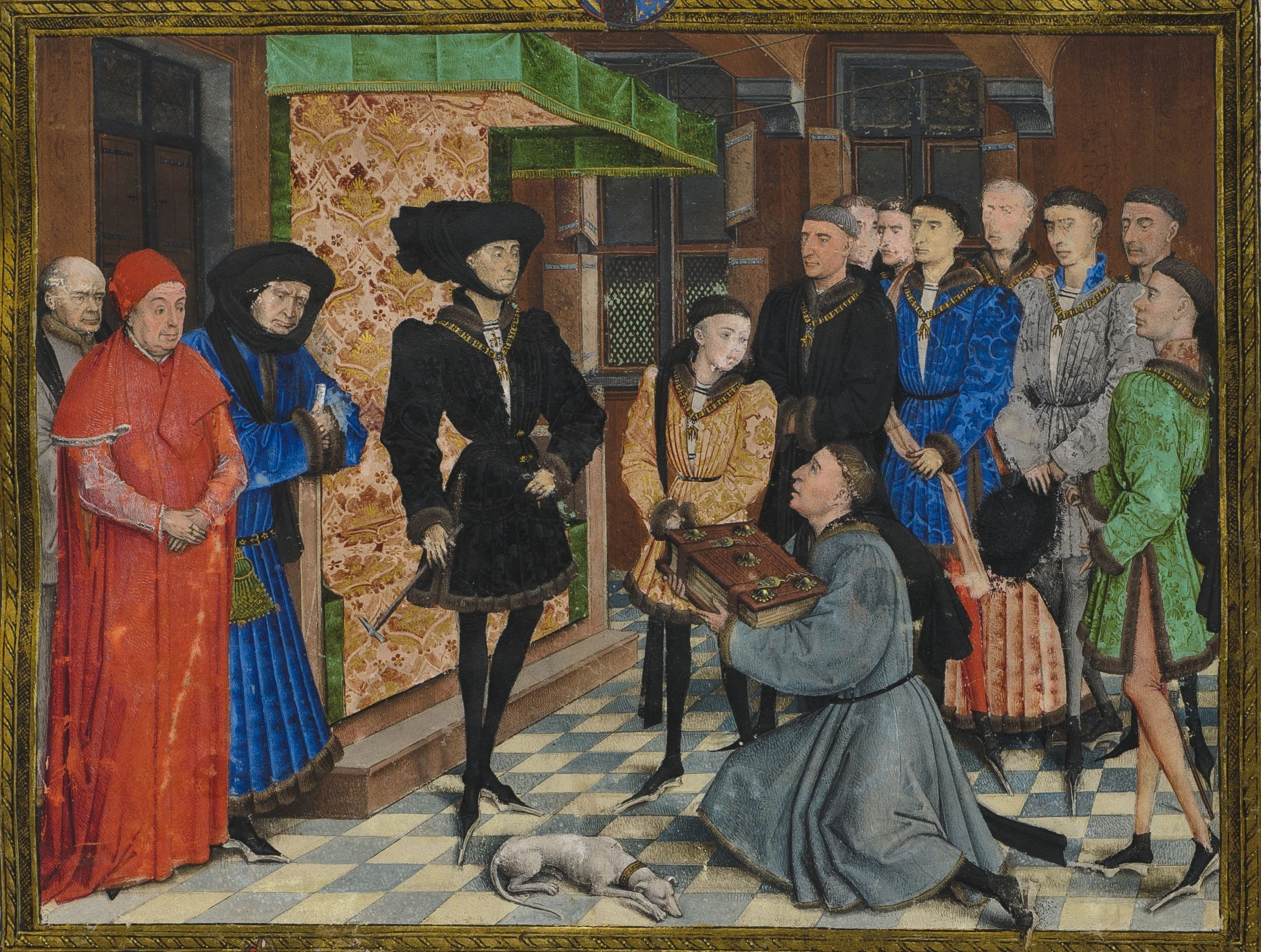 frontispiece of the Chroniques de Hainaut Depicted people: Jean Wauquelin, Philippe le Bon, Charles le Téméraire, Nicolas Rolin and Jean Chevrot